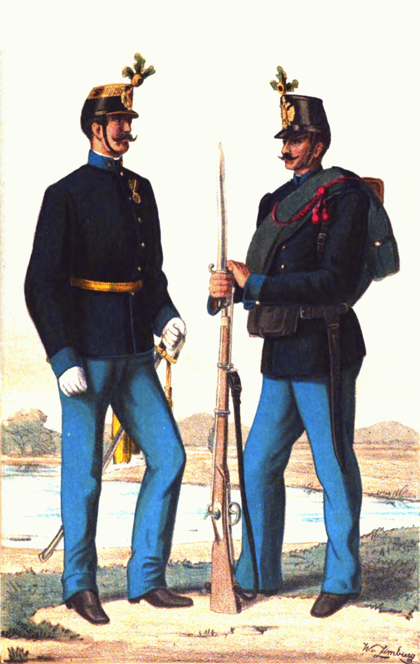 Uniform of the k.u.k./k.k. armed forces until 1918, here Offizier (officer) and Infanterist (infantryman, foot soldier) – of the “Lower Austrian Infantry-Regiment Hoch- and Deutschmeister N° 4”, 1867.